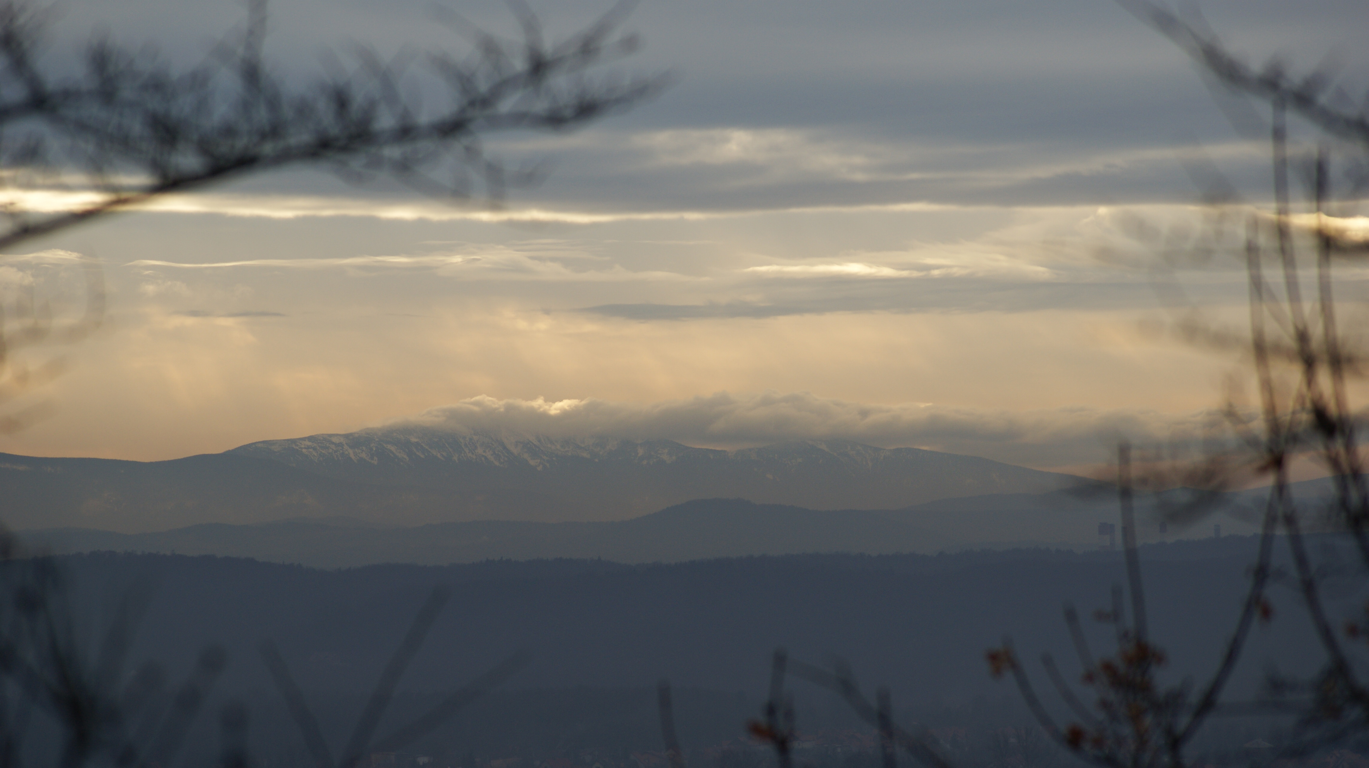 Babia Góra massif, view from NE (from Krakow)